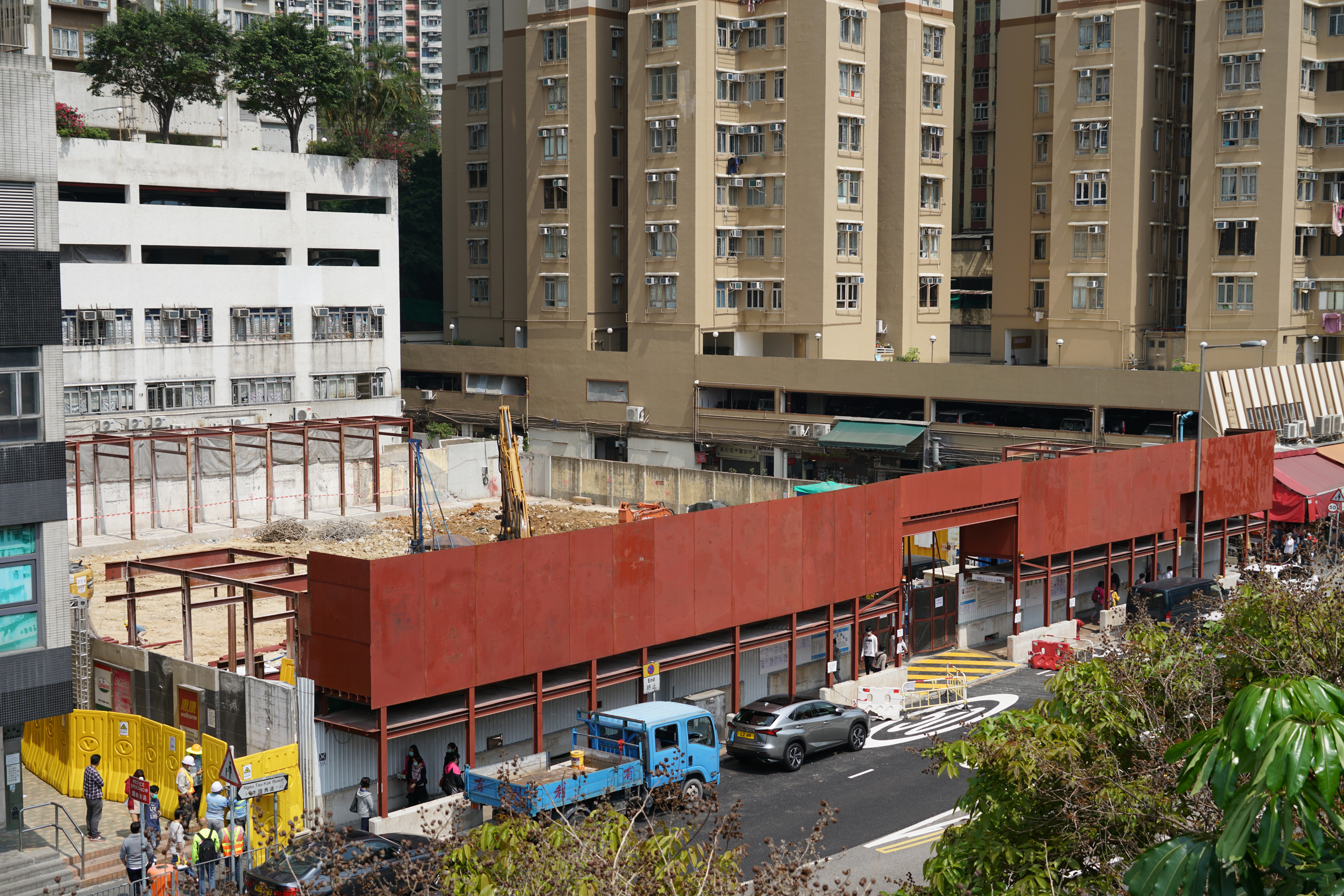 Former Amoycan Industrial Centre, Hong Kong.